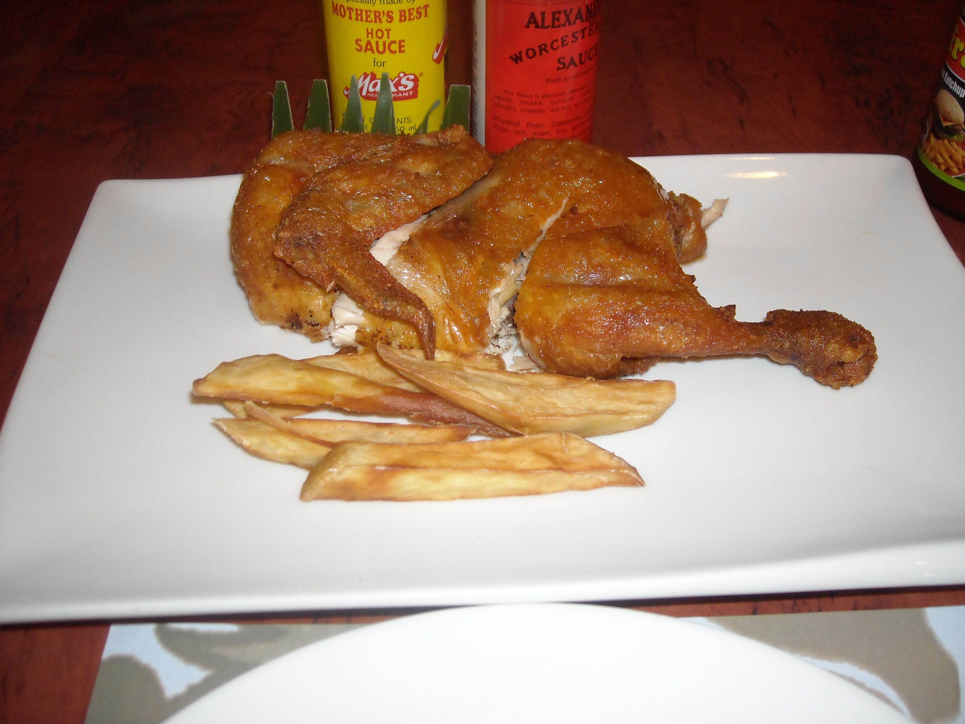 This is a meal I had for lunch.